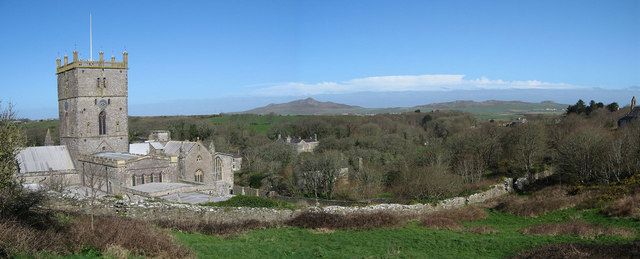 St David's Cathedral Panorama Panorama of St David's cathedral taken from the Pebbles. The picture was taken in April 2006.